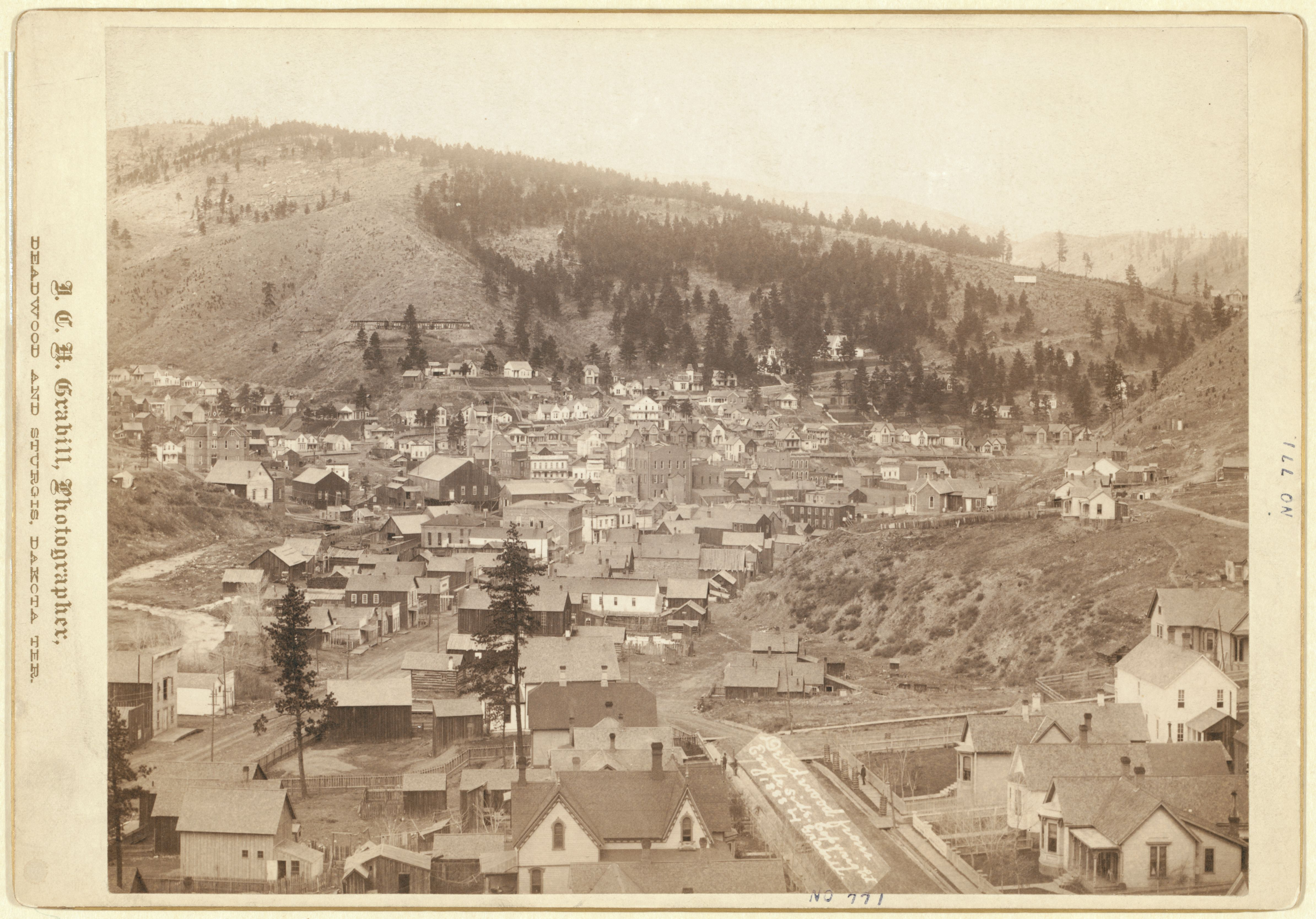 Original title Deadwood, [S.D.] from Engleside